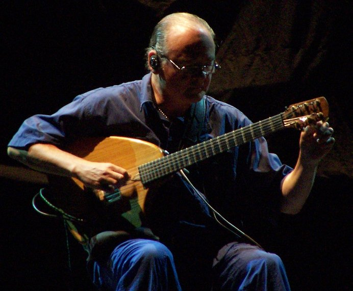 Photograph of Adrian Legg performing in Almería, Spain, at the Auditorio Maestro Padilla on July 18, 2006. Legg shared the stage with Joe Satriani. Custom guitar built by Bill Puplett [1][2] — resembling Klein Electric Guitars